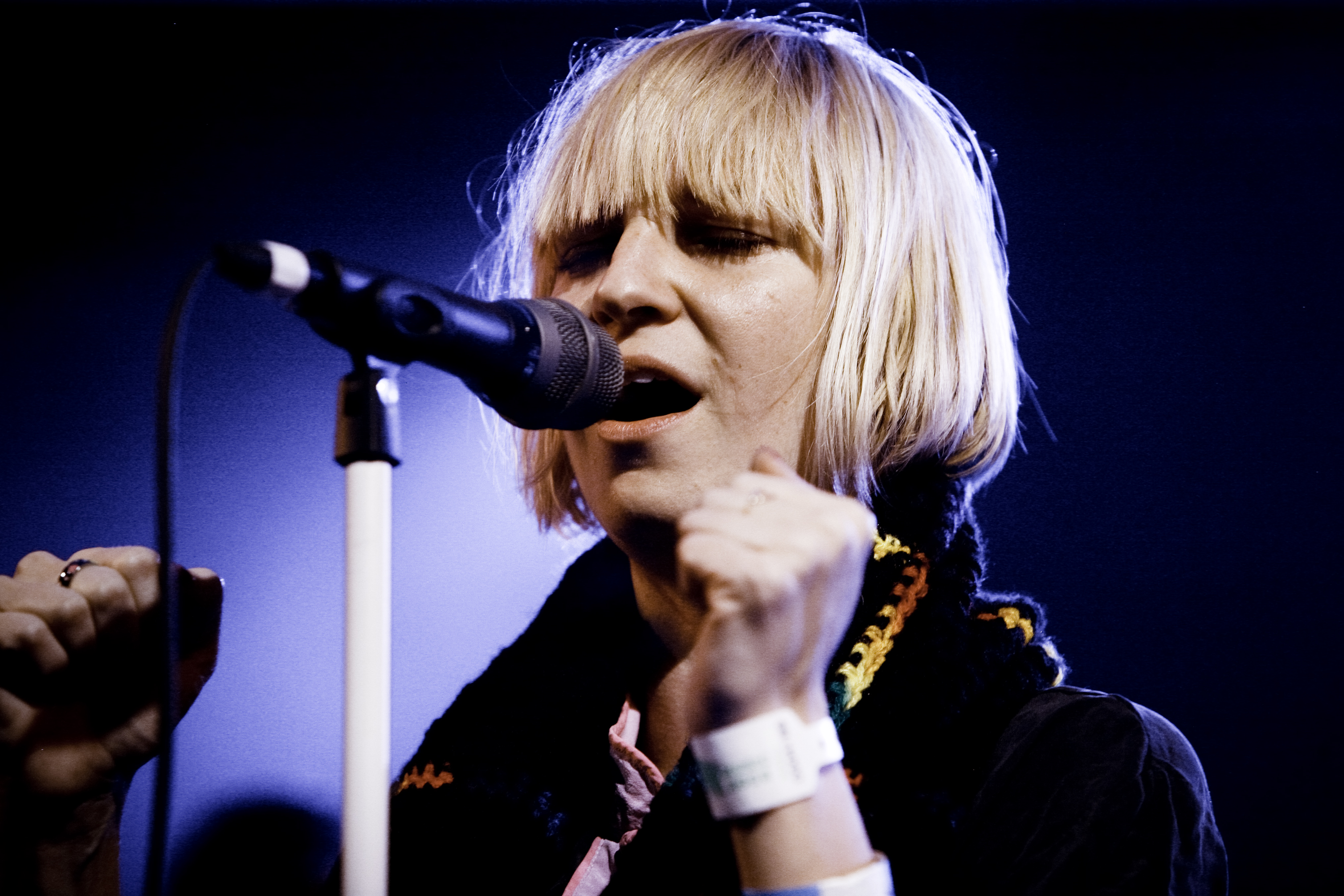 Sia performing at South by South West in 2008 photographed by Kris Krug (